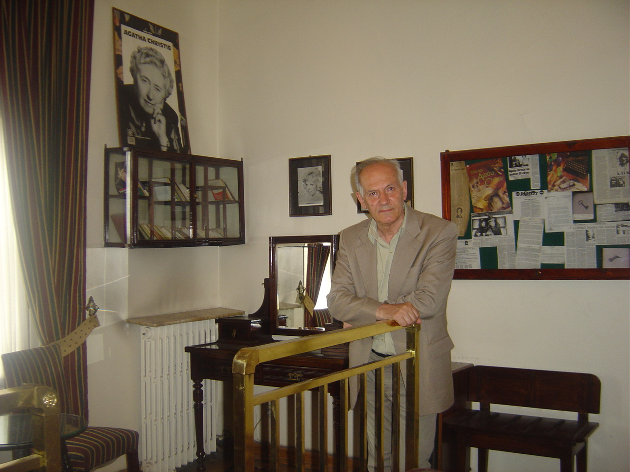 Pera Palas Hotel, Agatha Christie' s Room